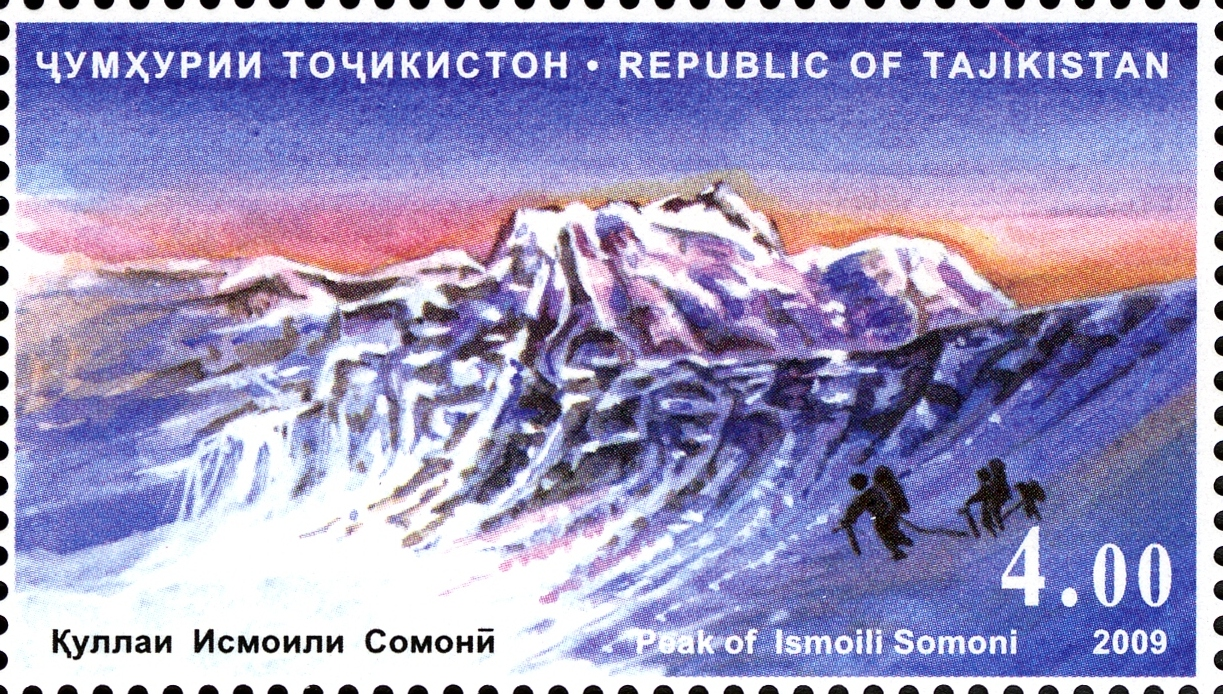 Glaciers of Tajikistan - Ismoili Samoni, Ismoil Somoni Peak. Stamps of Tajikistan